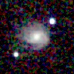 Galaxy NGC 425